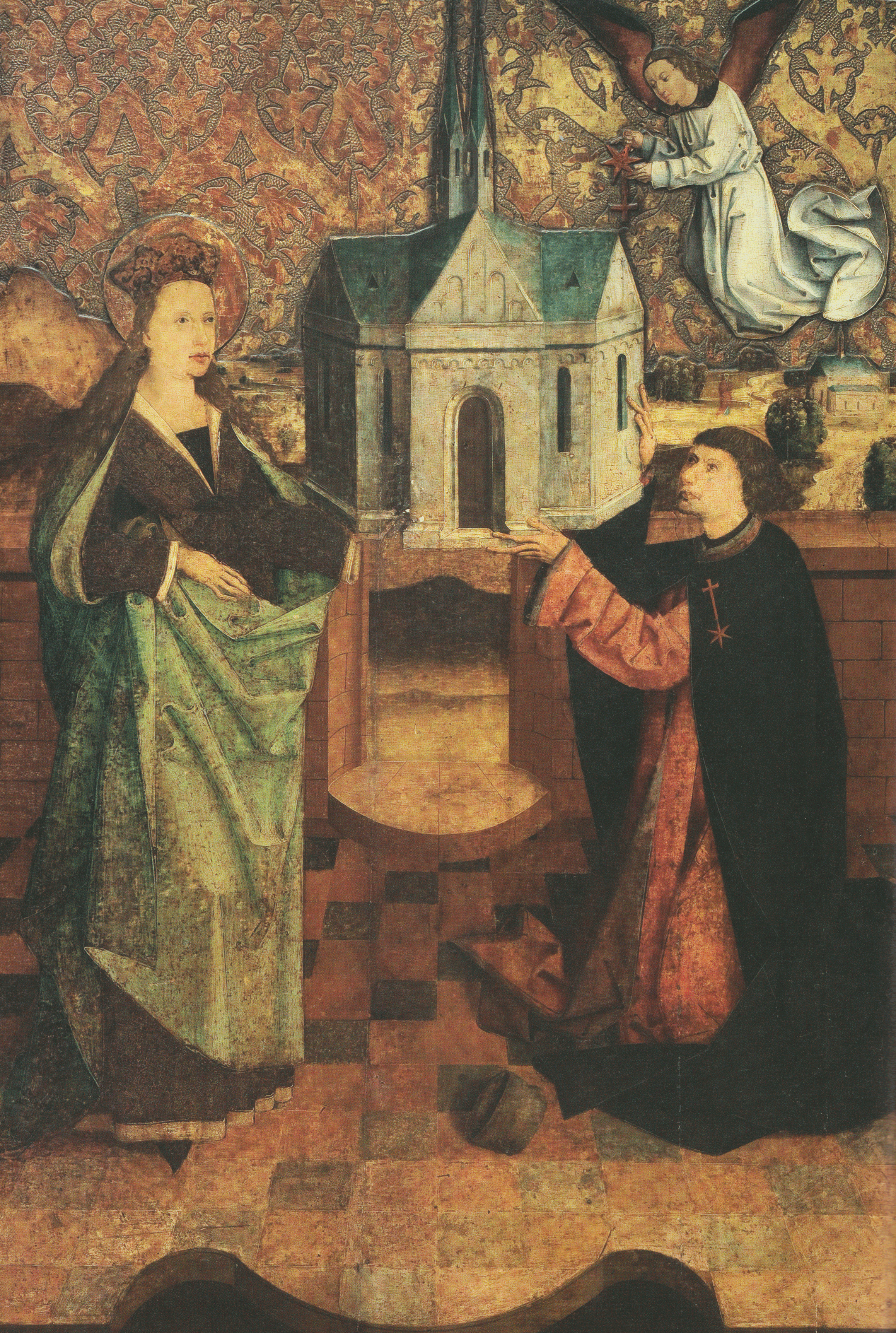 Nikolaus Puchner